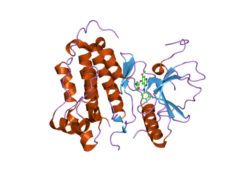 Cartoon representation of the molecular structure of protein registered with 2ity code.